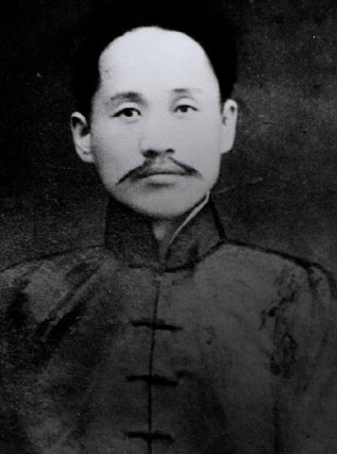 Shin Chaeho's photo